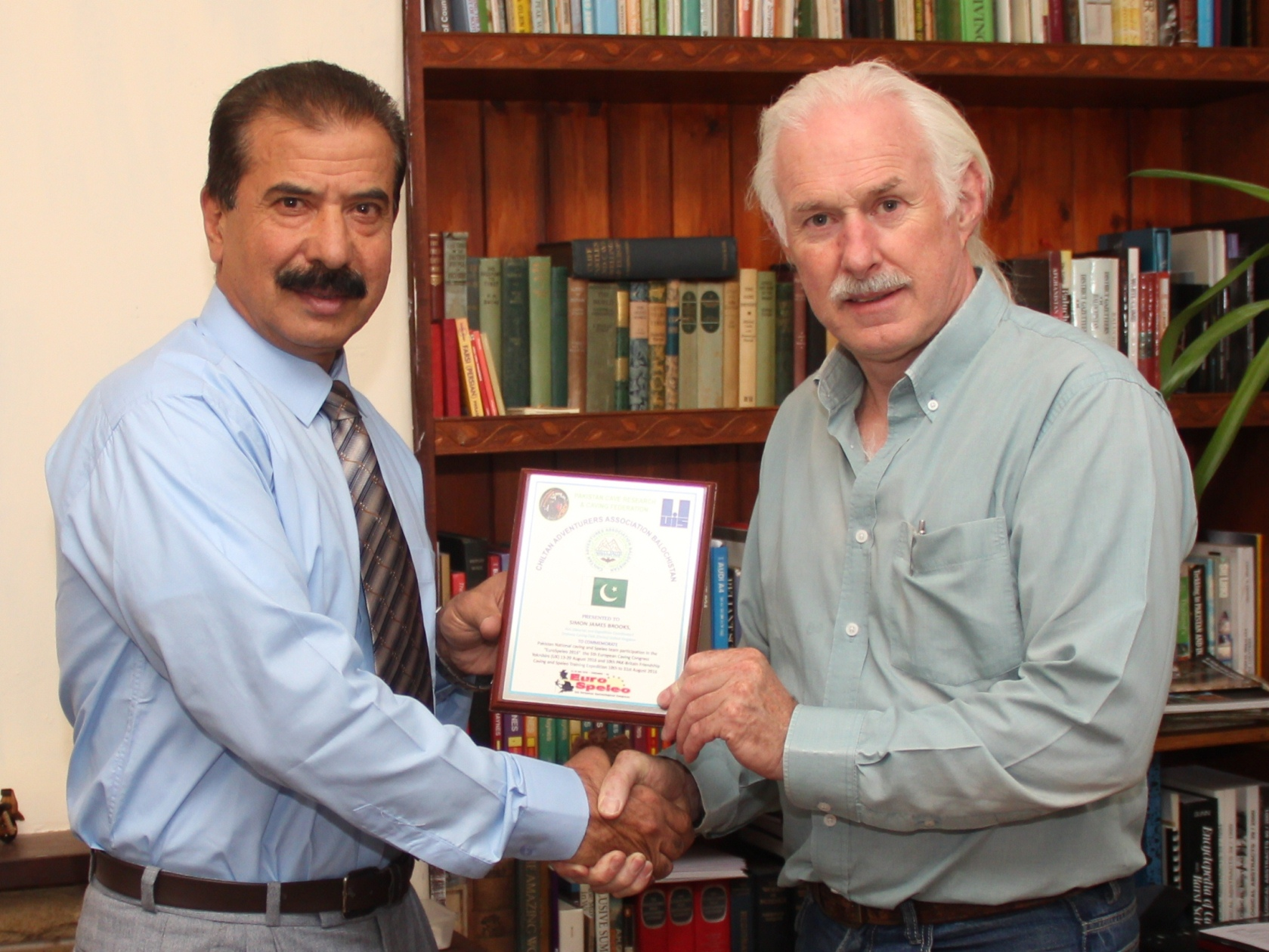 Hayatullah Khan Durrani Awarding the Commemorative Shield to Simon James Brooks on the eve of Eurospeleo Conference 2016 Great Britain